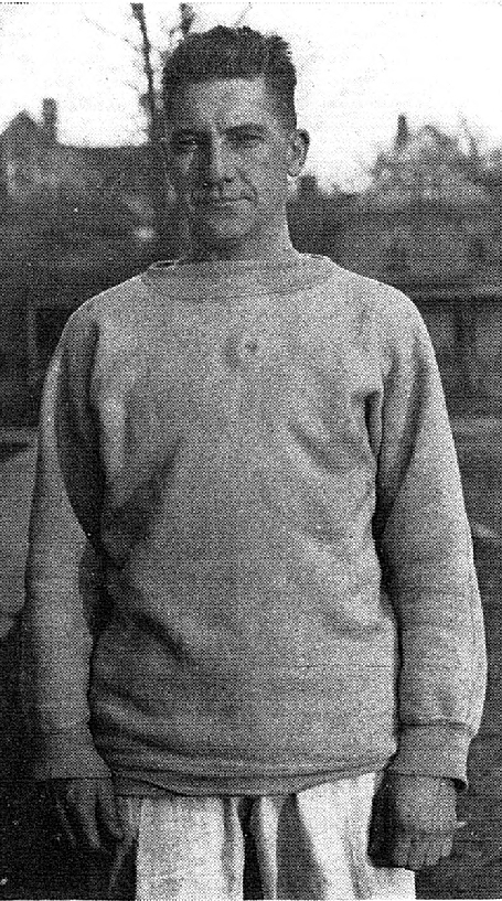 Photograph of Derrill "Dale" Pratt, University of Michigan assistant football coach and Major League Baseball player